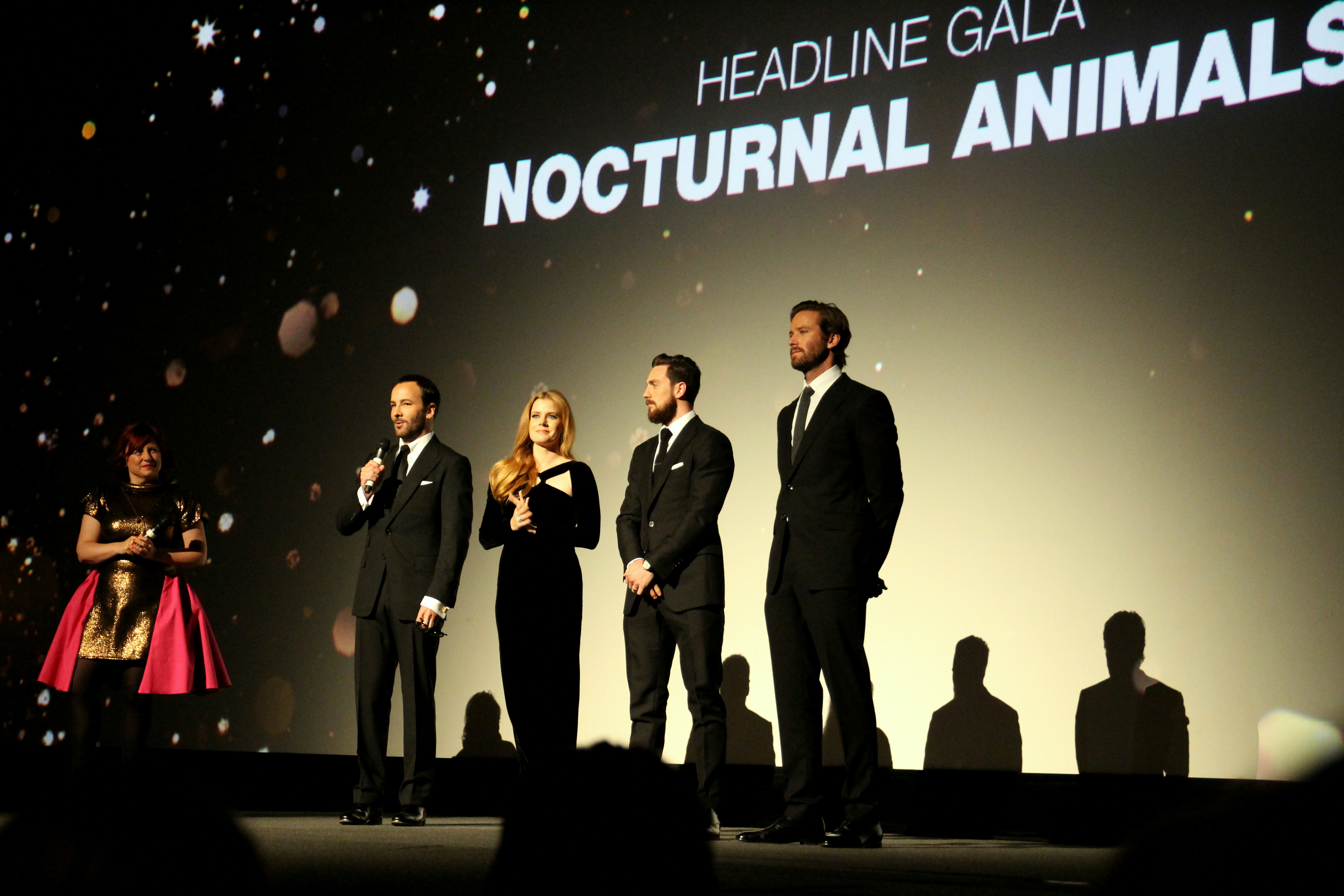 Tom Ford, Amy Adams, Aaron Taylor-Johnson